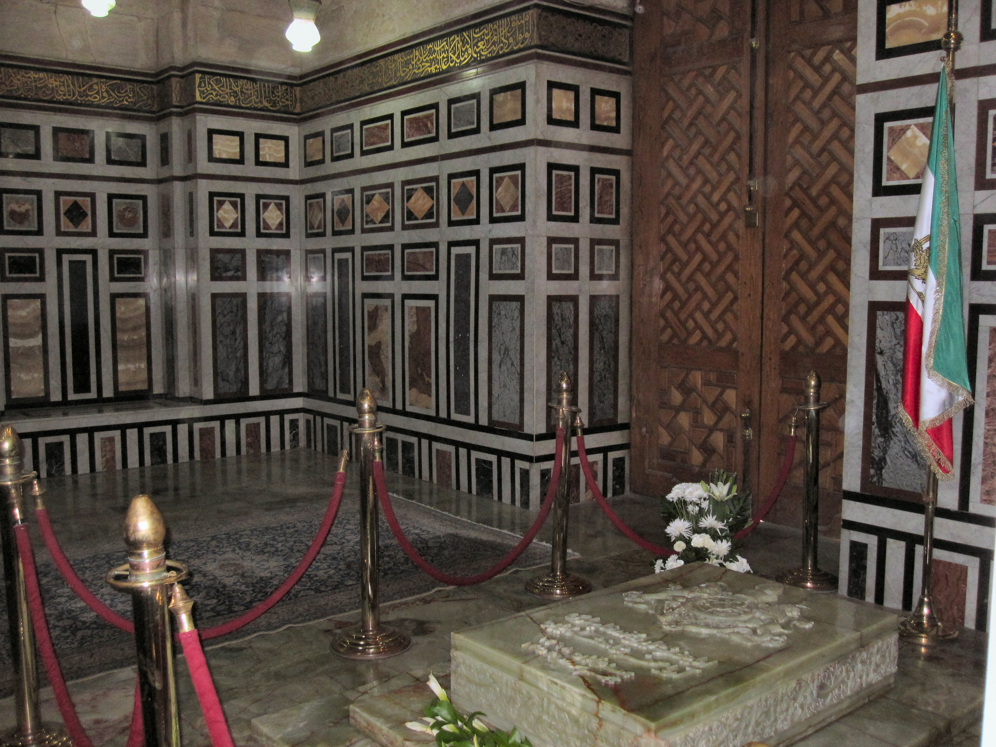 Tomb of the last shah of Iran, Mohammad Reza Pahlavi (1919–1980), located in the Rifa'i Mosque in Cairo, Egypt.